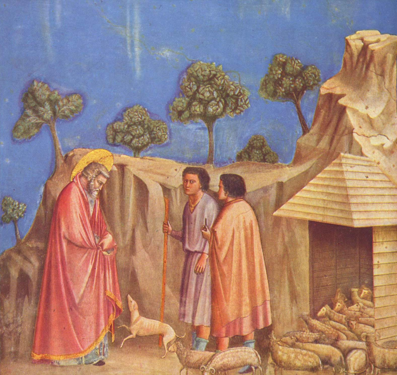 Legend of St Joachim